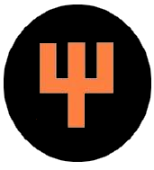 version libre del escudo o logotipo del Movimiento Costa Rica Libre